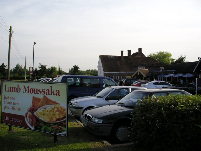 Lamb moussaka at the Vine Inn, Ower. A busy Vine Inn, judging by the car park. No doubt punters celebrating the fine weather and England's win over Paraguay in the World Cup.